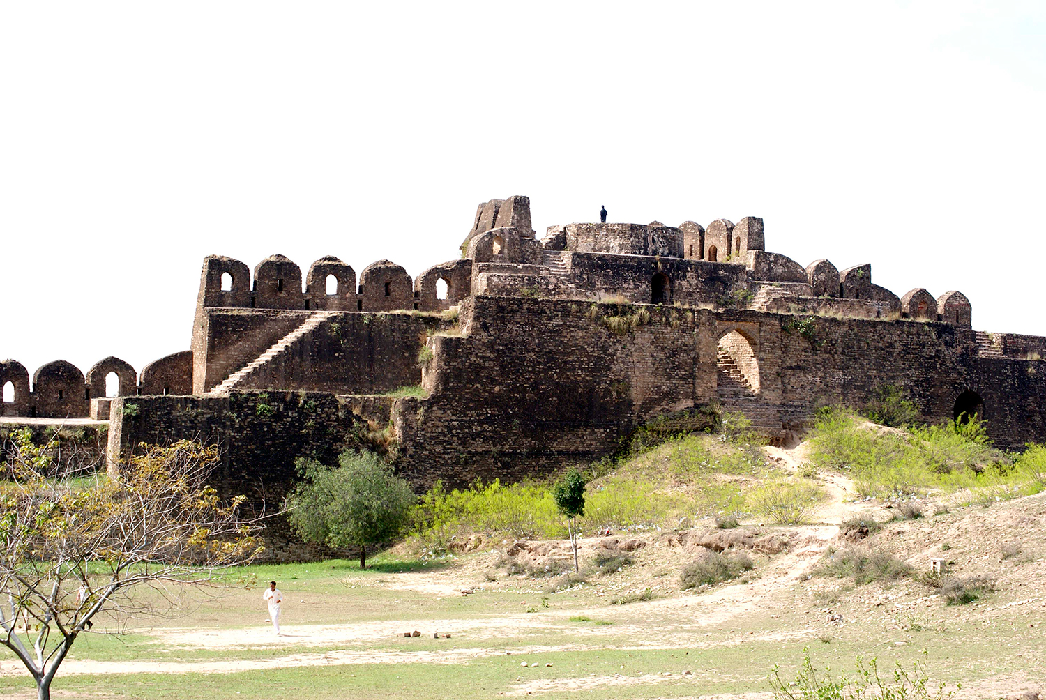 Phansi Ghat Rohtas Fort Jhelum